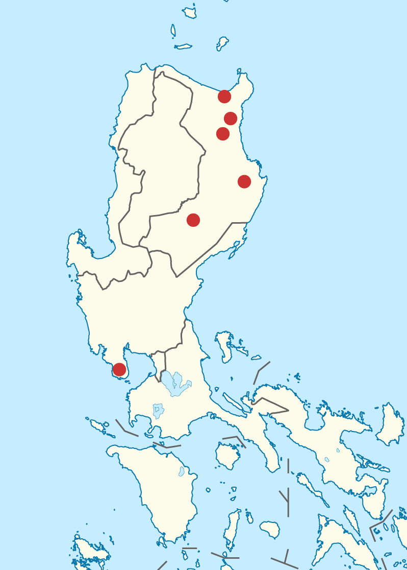 The only known locations where the Isabela Oriole has been found in the past